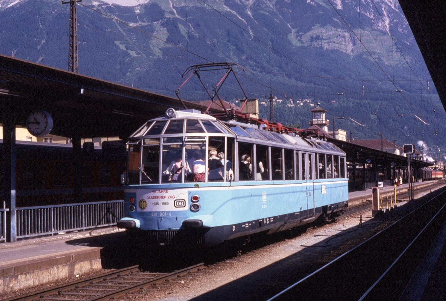 The unique "Glazed Train", two of which were built for the then Deutsche Reichsbahn (DRG) in 1935, here at Innsbruck Hauptbahnhof during a trip through Austria.